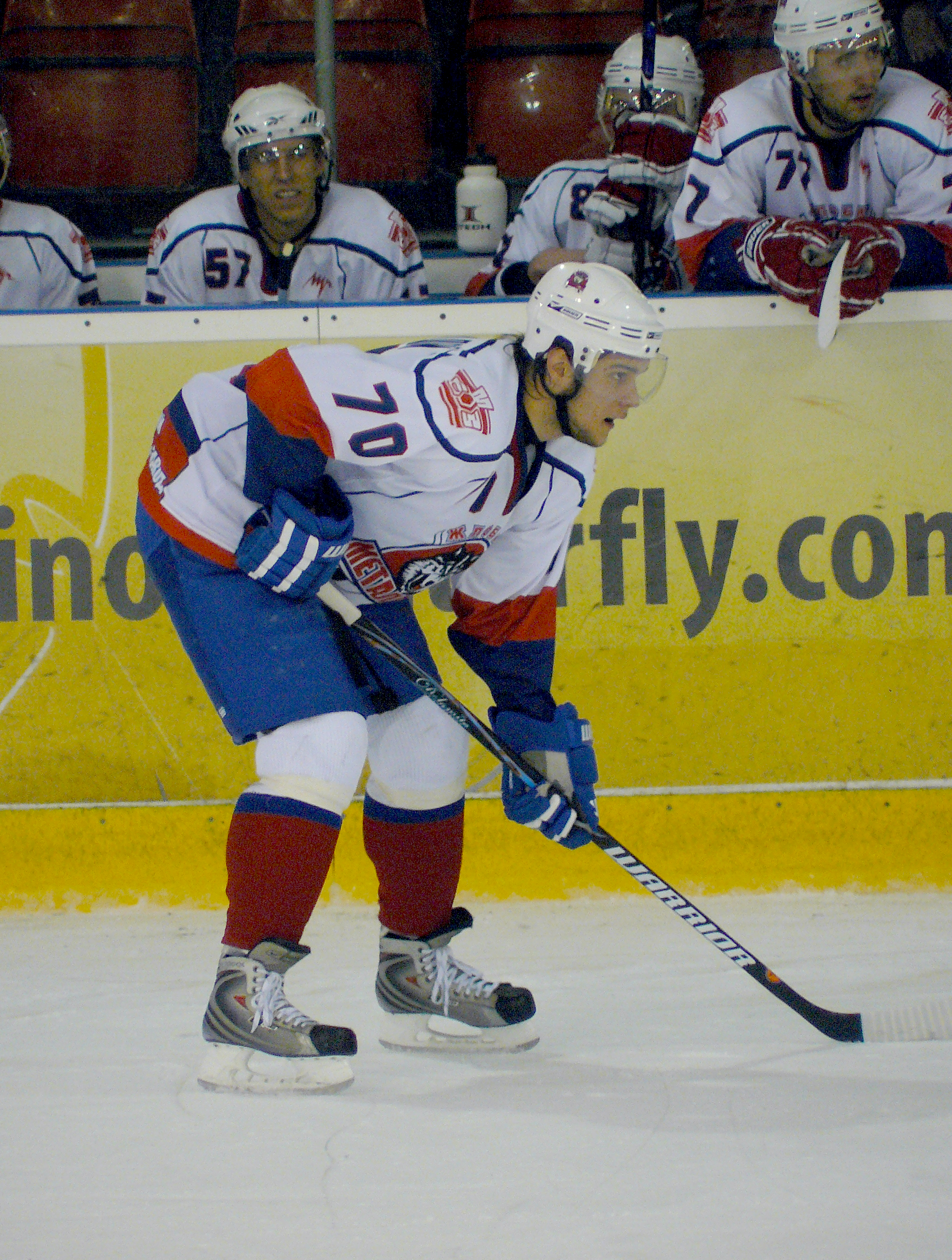 Defender Ilya Kaznadey #70 of the Metallurg Zhlobin during the Belarus Extraliga game against the Sokil Kyiv on October 10, 2010 at the Terminal Arena in Brovary, Ukraine. Sokil Kyiv won the game 2:1.